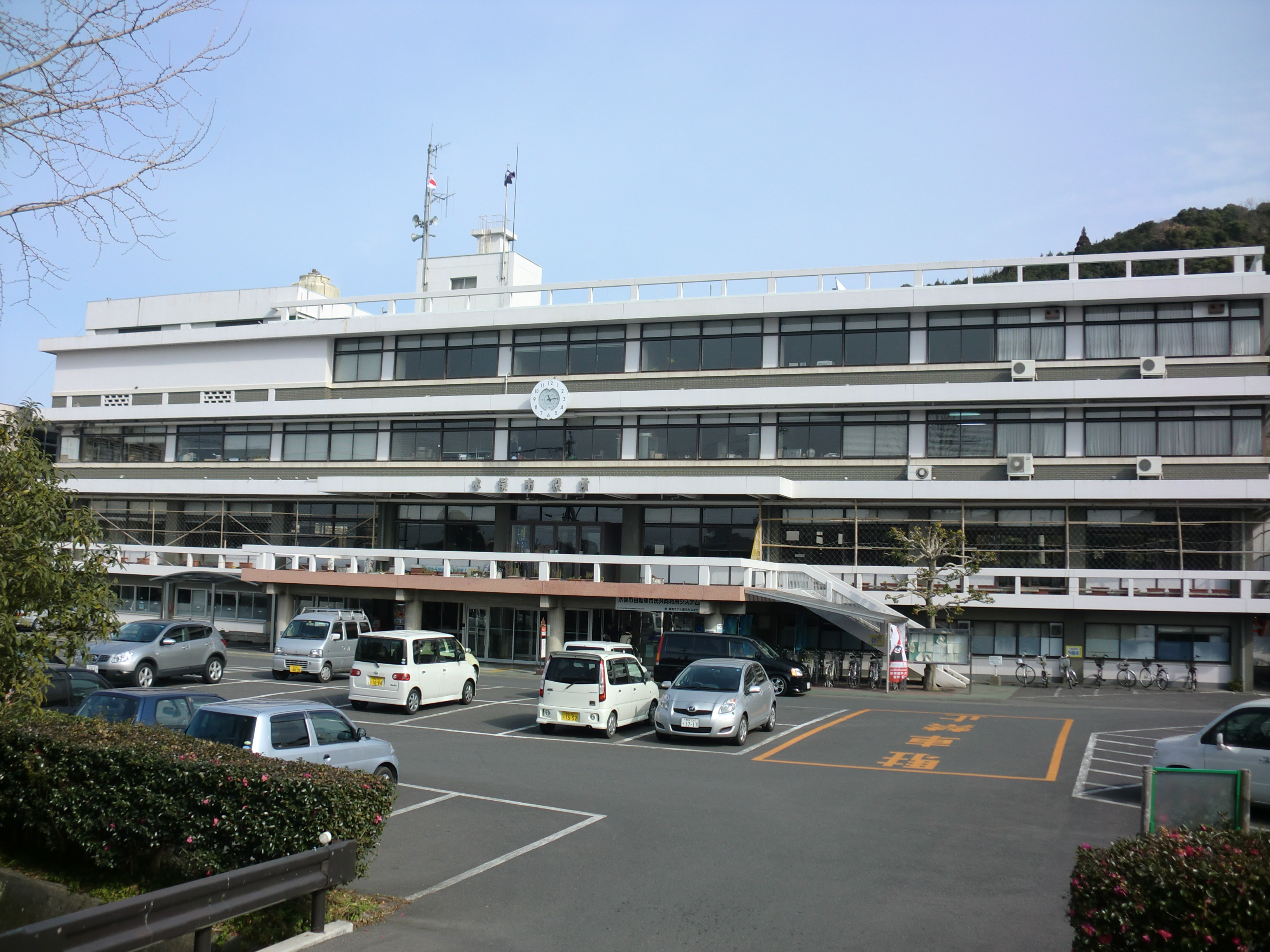 Minamata City Hall